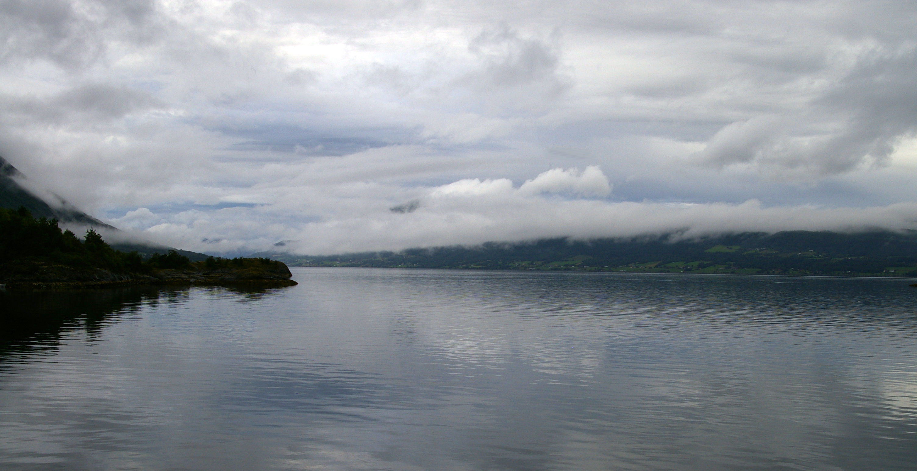 Kvernesfjorden seen from Bergsøya, Gjemnes, Møre og Romsdal, Norway